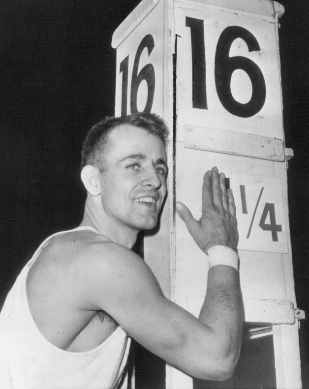 1962 John Uelses US Marines Pole Vault at Millrose Games Press Photo